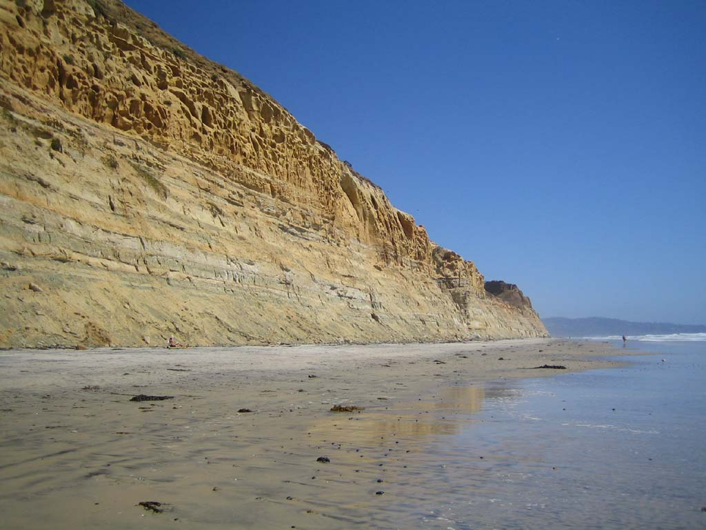 Imported from en:/6/6e/Black's beach.jpg. Description there: This picture was taken by me. Feel free to use. Jaybeatle 15:09, 1 December 2005 (UTC)